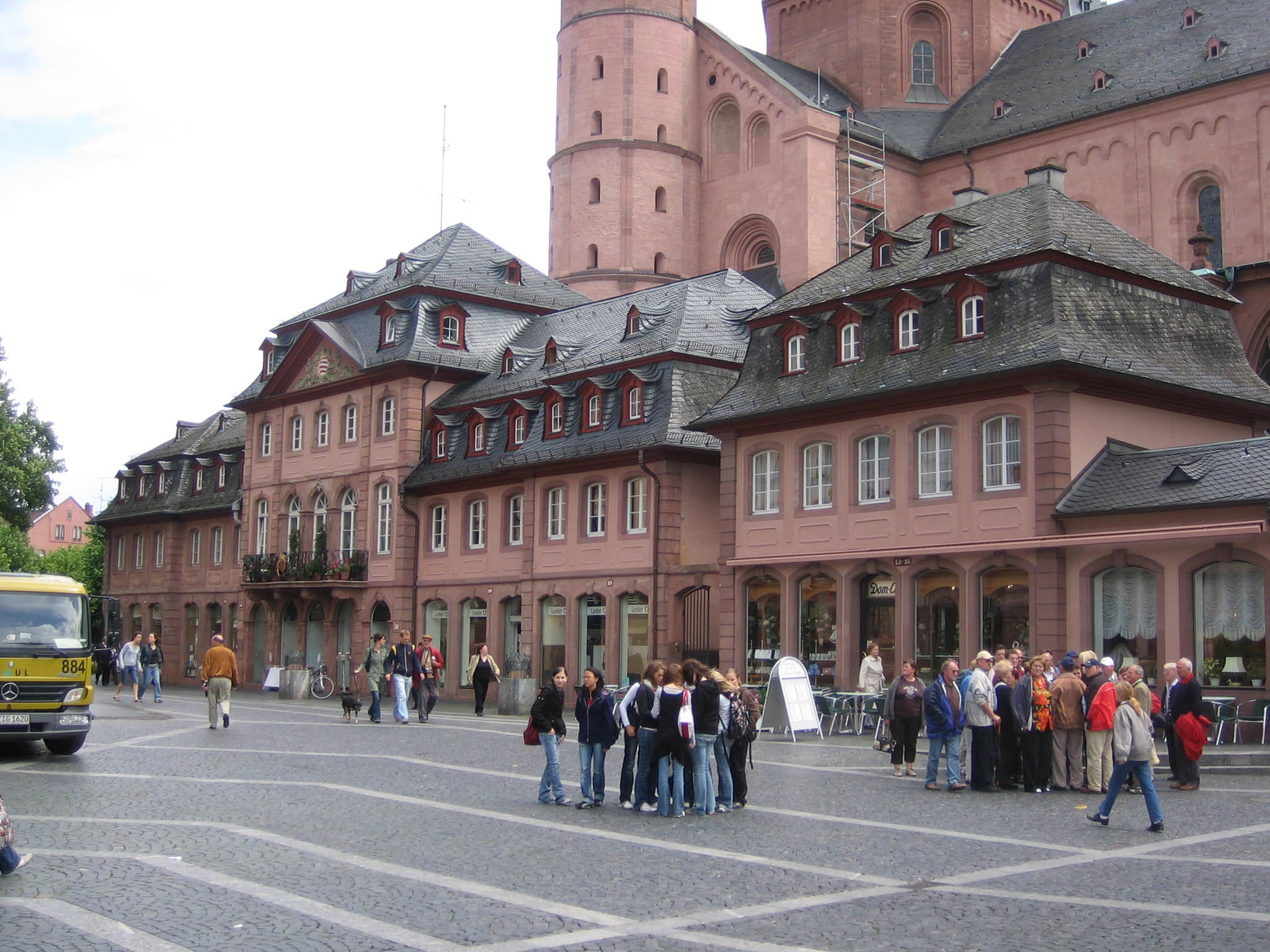 Houses at the food marketplace in Mainz, drawn by architect Johann Valentin Thoman.